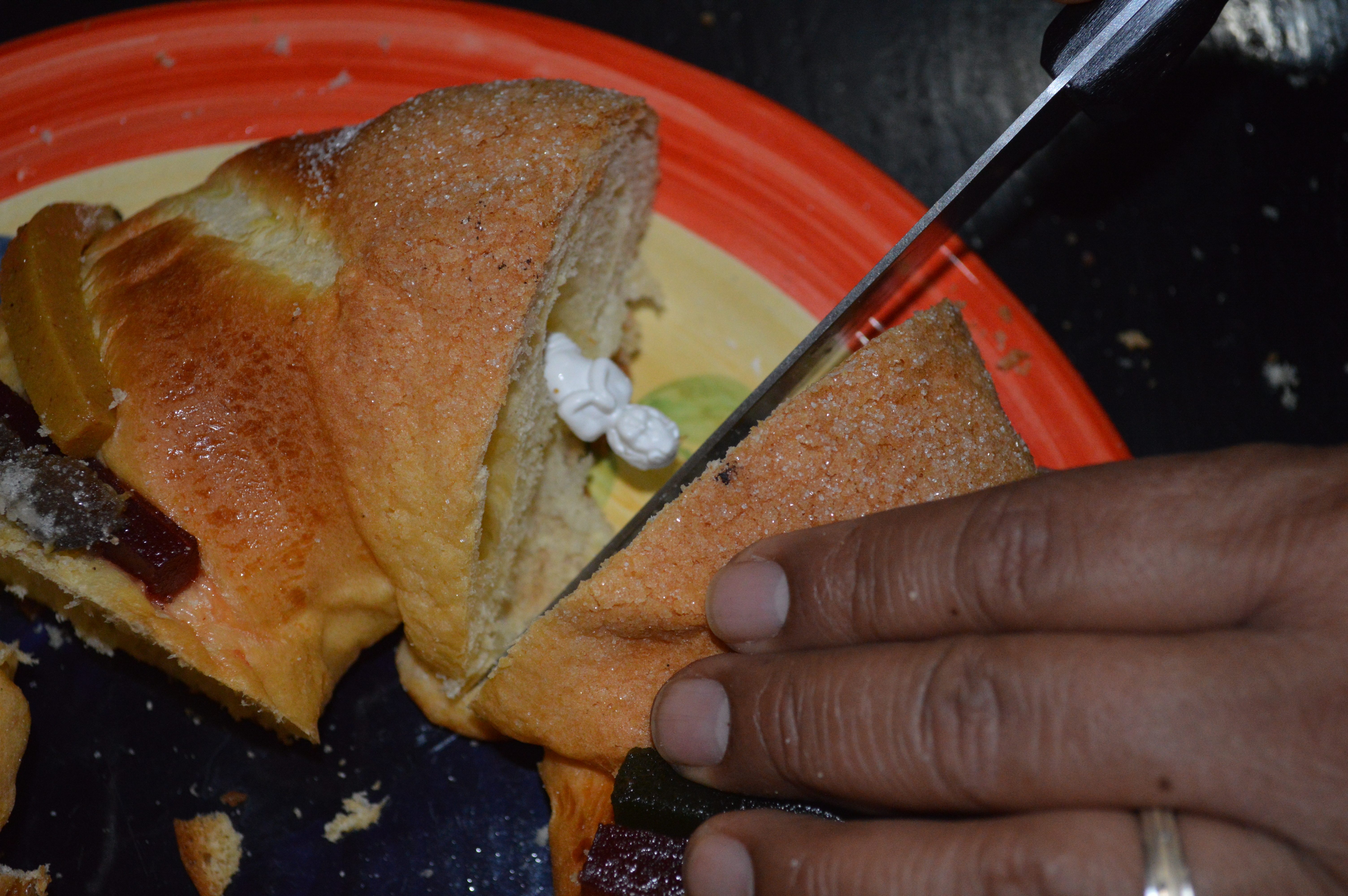 Exposing a hidden image of the baby Jesus in a small Rosca de Reyes (King cake) in Mexico